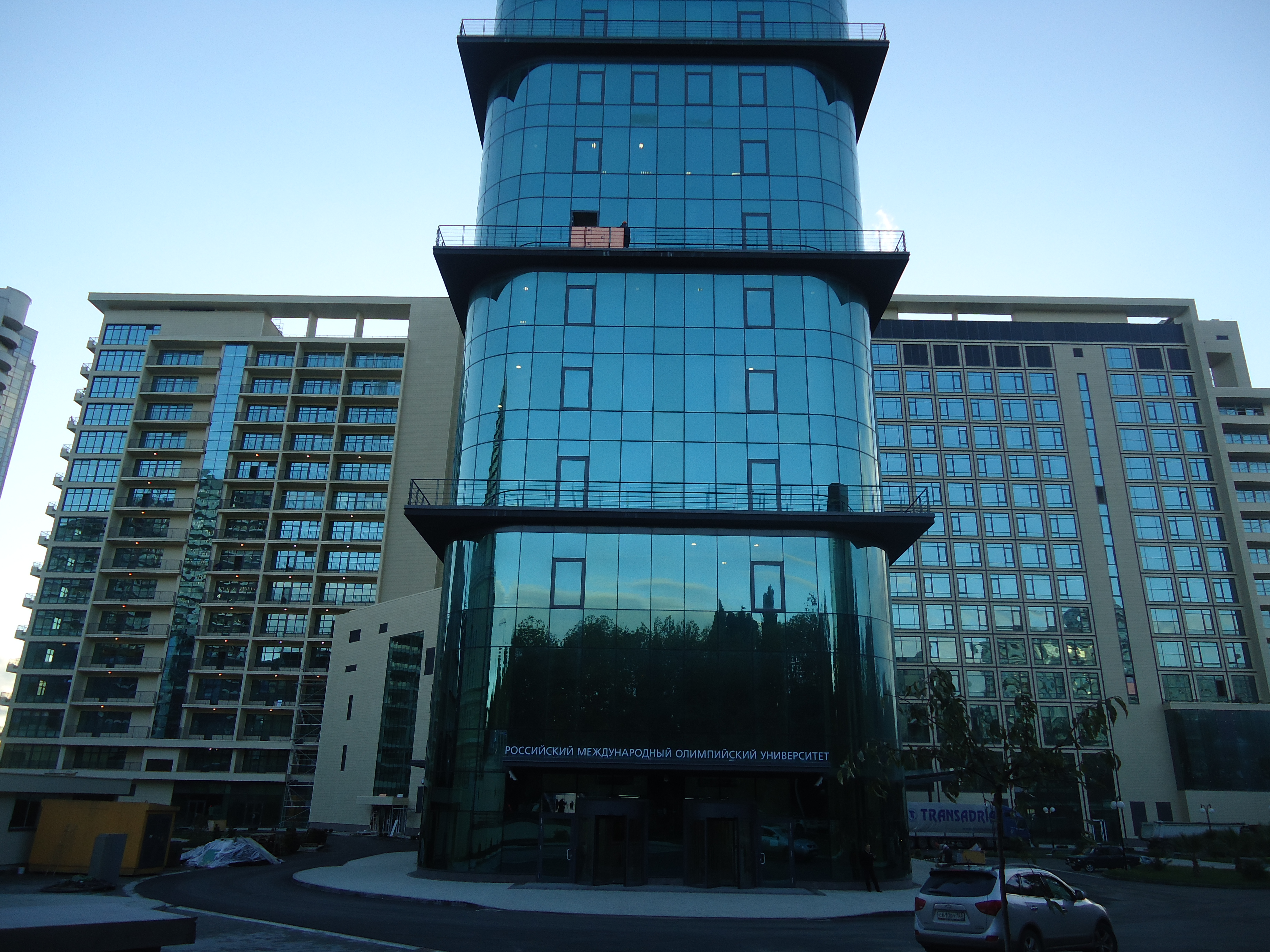 Russian International Olympic University in Sochi